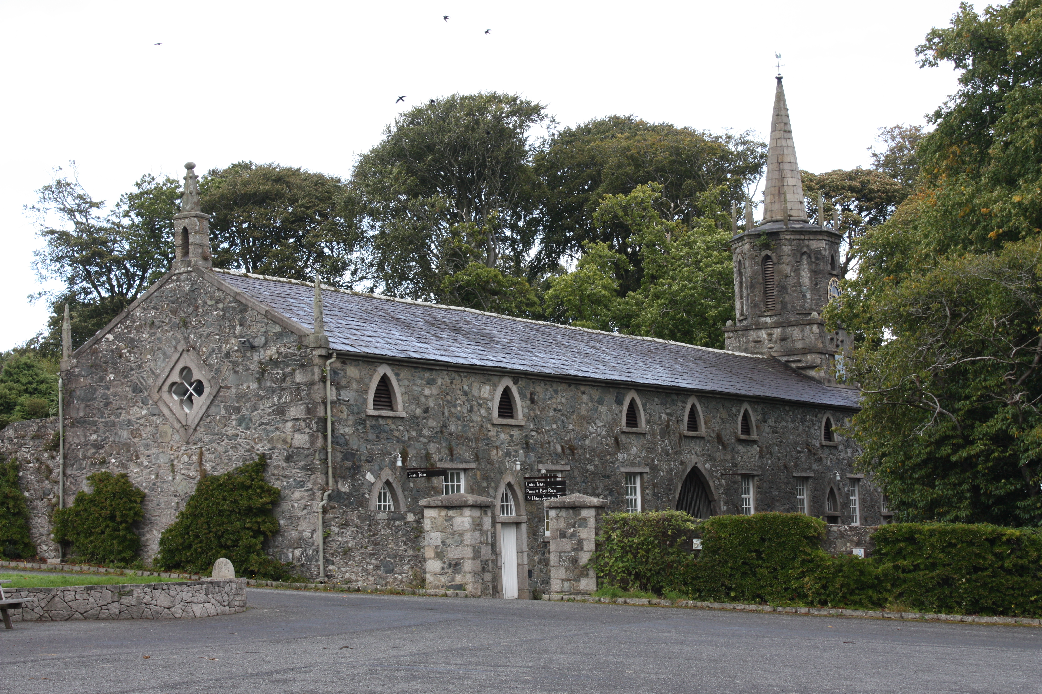 Clanbrassil barn, Tollymore Forest Park, Bryansford, County Down, Northern Ireland